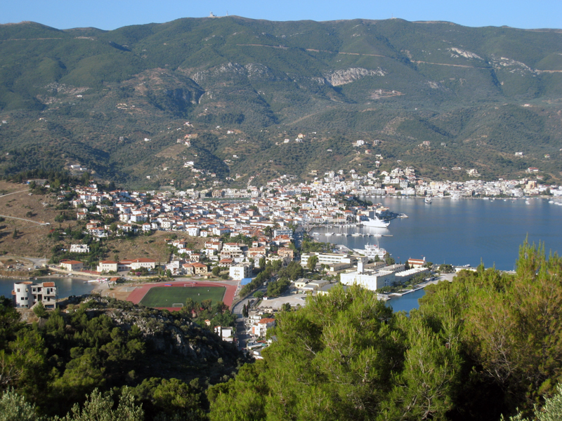 Poros Island, Greece.